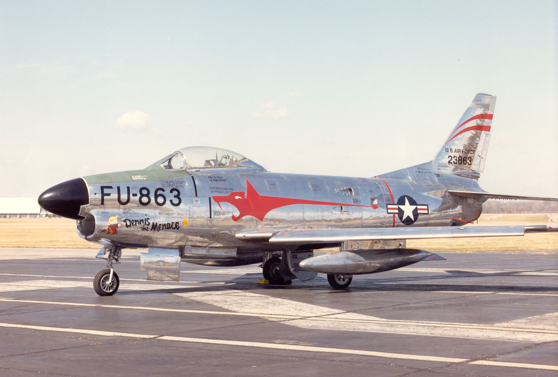 North American F-86D-40-NA Sabre 52-3863 at United States Air Force Museum. Shown in markings of 97th Fighter-Interceptor Squadron, Wright-Patterson Air Force Base, Ohio, 1954